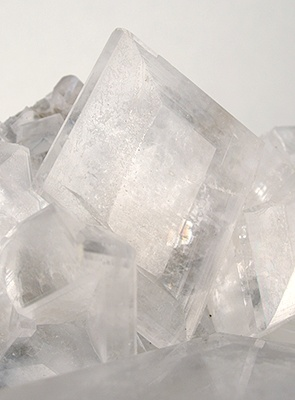 Calcite Locality: Wessels Mine (Wessel's Mine), Hotazel, Kalahari manganese fields, Northern Cape Province, South Africa (Locality at ) Size: cabinet, 11.6 x 10.1 x 8.4 cm Calcite A cluster of GEMMY, transparent calcite rhombohedra to 5 cm, just brilliantly lustrous and clear. Note how some are sharp rhombs and some show modifications on the long faces, extra bevels you can see in the closeup photo - lower right. These crystals rival calcite from anywhere, and large specimens like this are uncommon from the Wessels Mine. All the major crystals here are in good shape except for a slight contact to the bottom of the bottom-most. In person, it is a much brighter and sparklier specimen, as well.